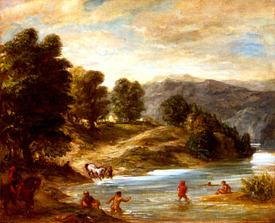 Young men bathing in the river Sebu [sbu], in the north of present-day kingdom of Morocco (al-Maghrib). The flow of the river and the surrounding vegetation suggest that the scene takes place in spring, after the melting of the snow in the mountains.